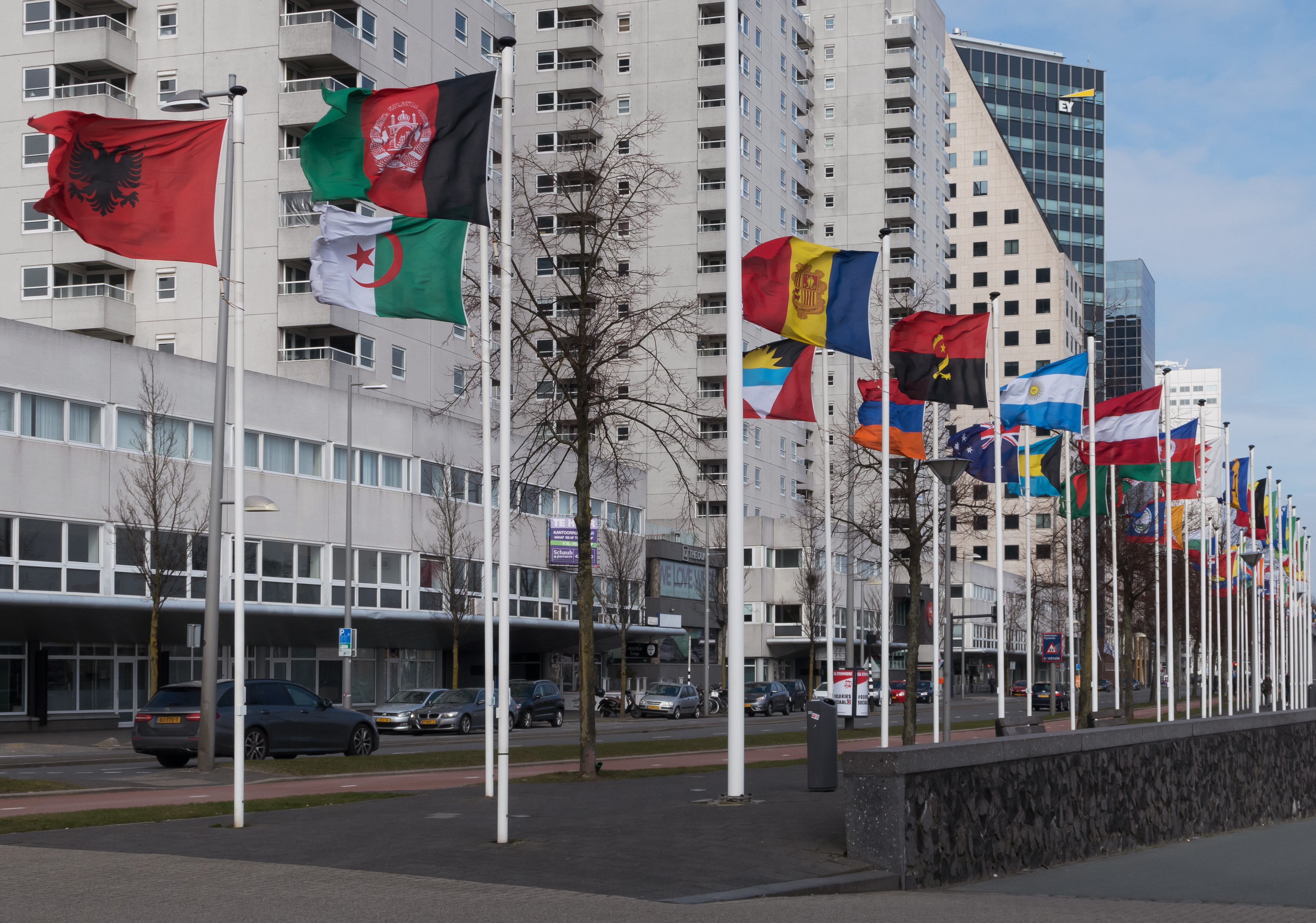 Rotterdam, the countries flags of all nationalities residing in the Netherlands (in alphabetical order in English)